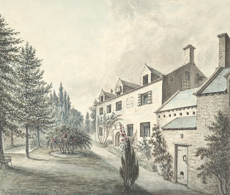 Stymlin, 1794 (Stymlyn)